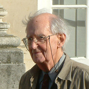 Adriaan Blaauw at the Observatoire de Paris, Meudon, France; taken at the ESA scientific symposium on "The Three Dimensional Universe with Gaia"